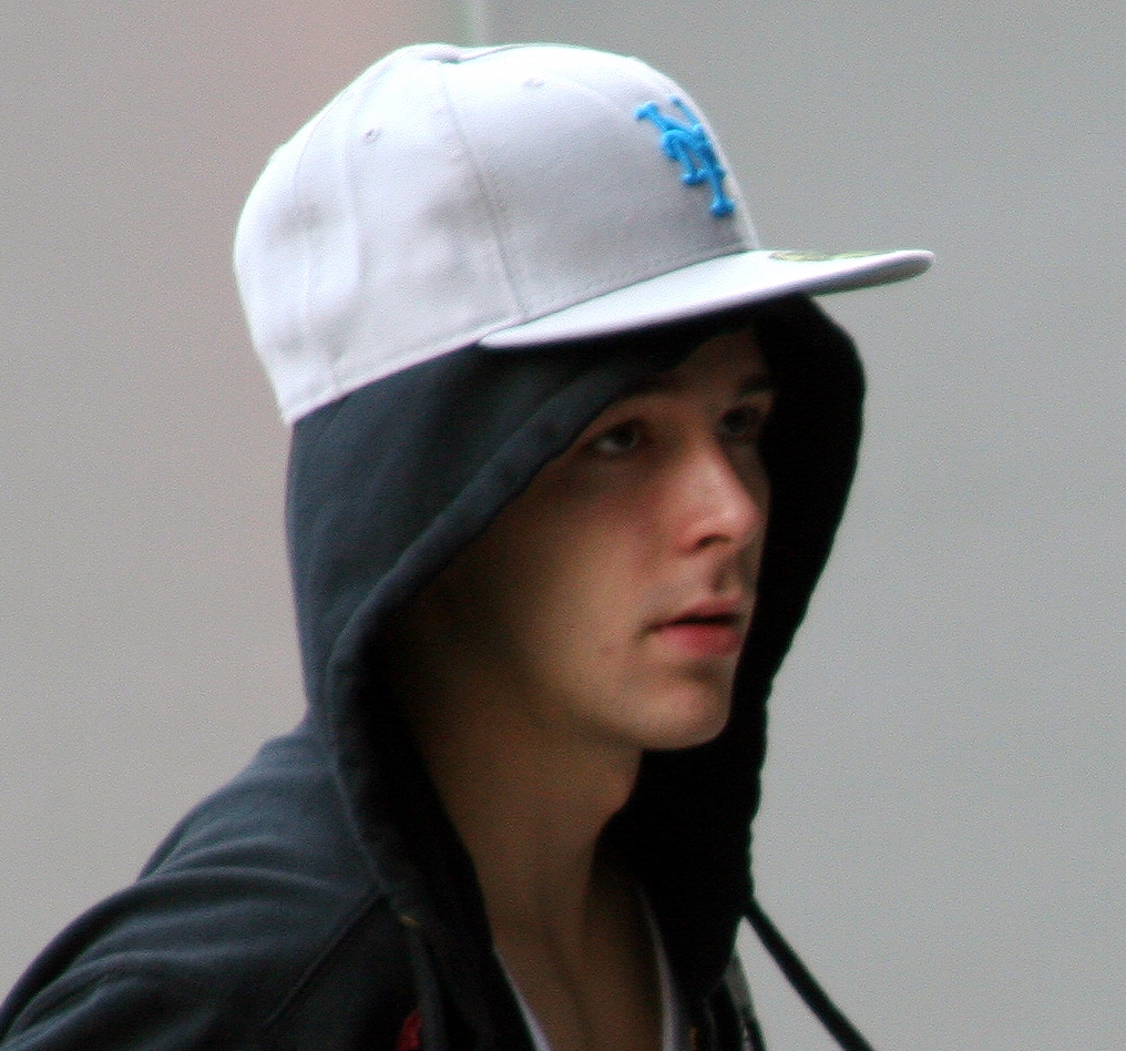 Bobby Edner leaving the offices of WEZB (B97) radio station in New Orleans, Louisiana following a live appearance with Varsity Fanclub on October 6, 2008